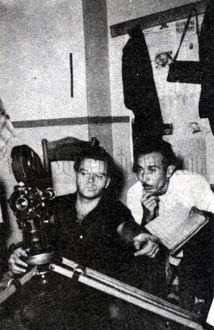 Samuel Khachikian - 1955